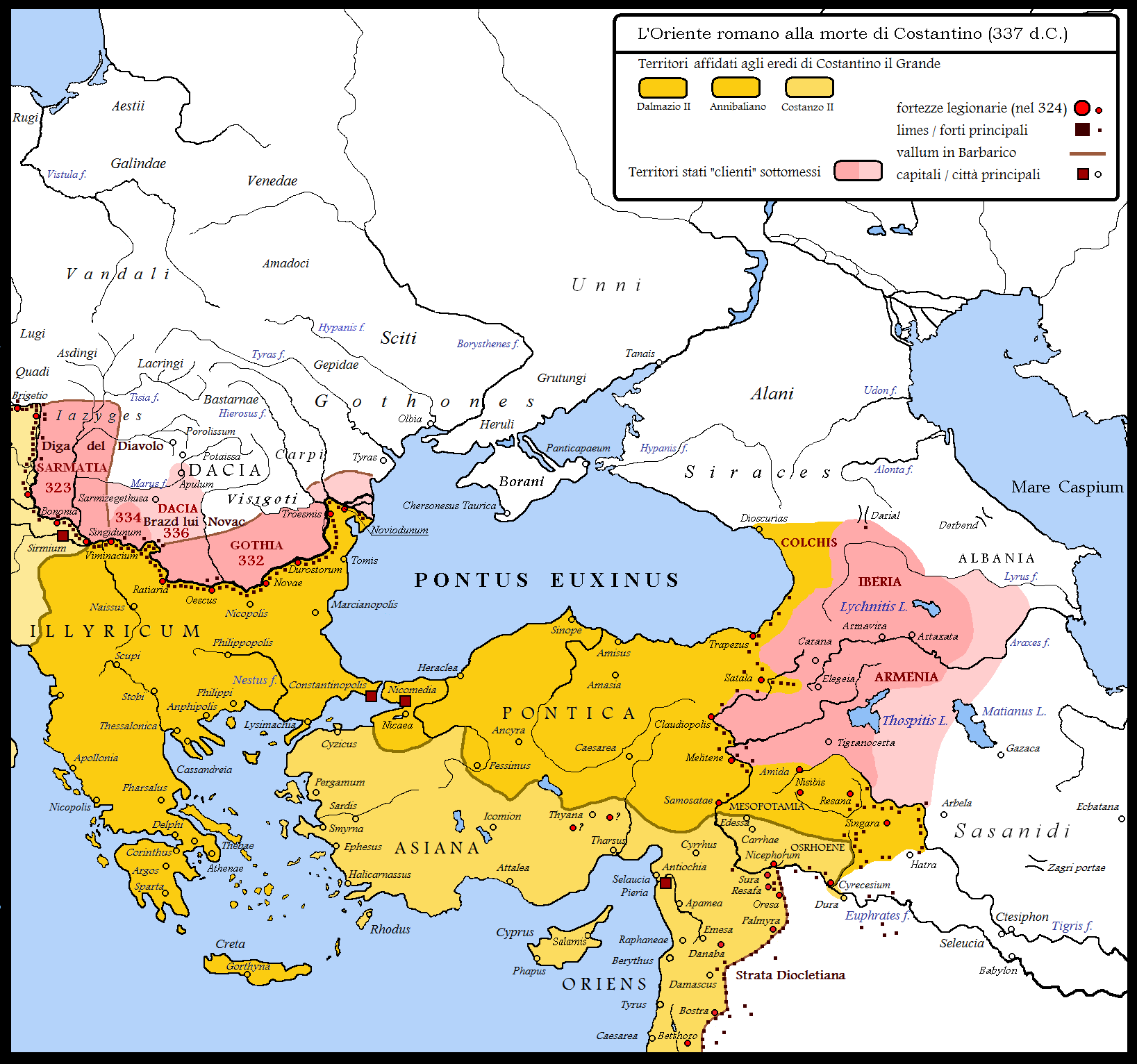 Limes orientalis AD 337 at Contantinus the Great's death